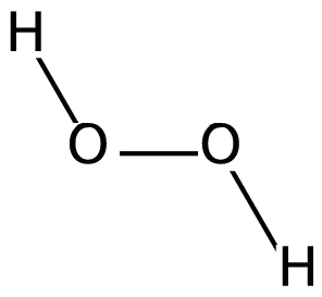 Hydrogen Peroxide Structural Diagram. Created by me on February 27, 2005 using BKChem, GIMP and .